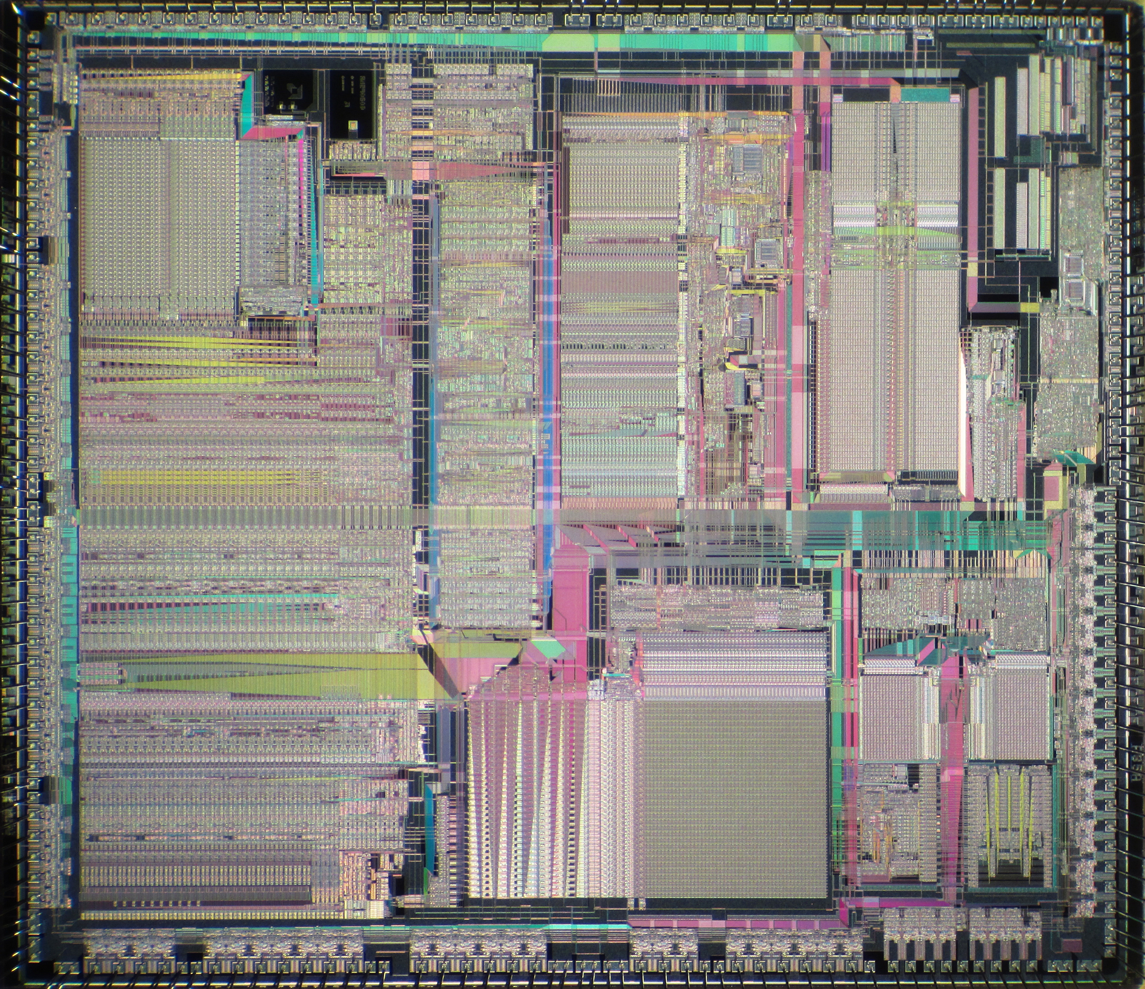 Die shot of AMD Am29050-40GC microprocessor.